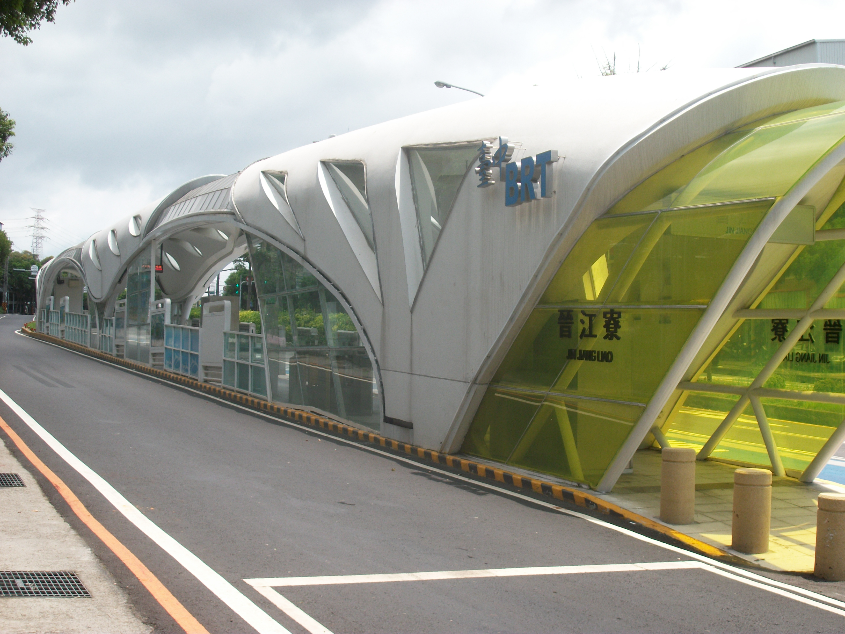 Taichung BRT Bule Line Jin Jiang Liao Station